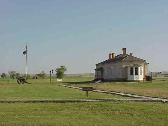 Photo of the parade ground at Fort Buford